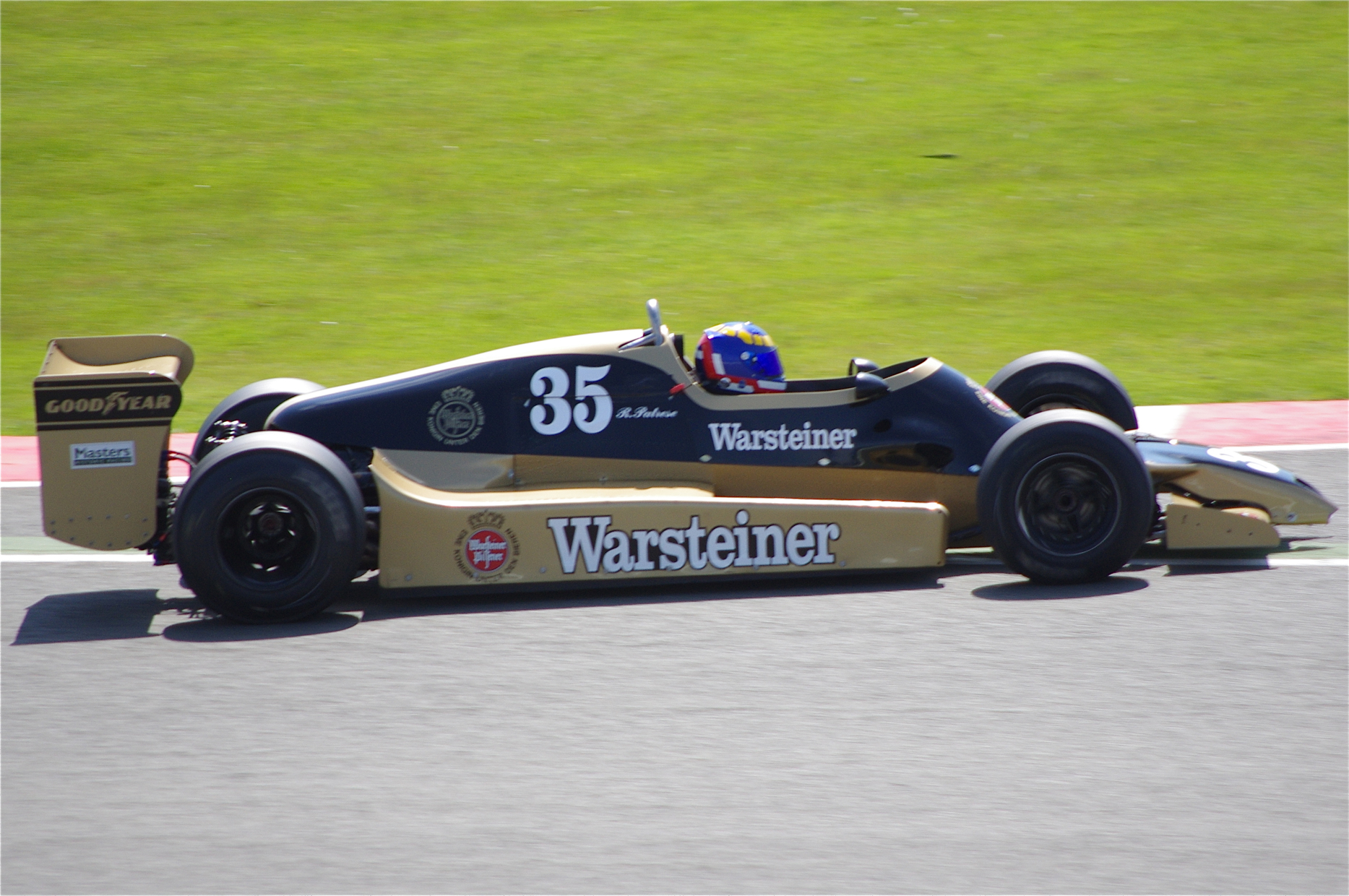 Silverstone Classic, 2012